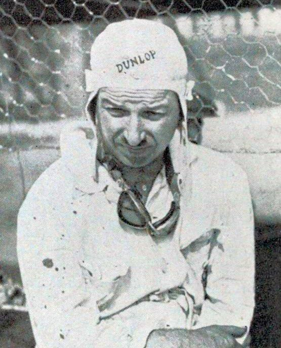 Alfieri Maserati at GP Monza on 7 September 1930, where Alfieri became 4th in "voiturette" class with a 1.1 litre straight-8 Maserati 26C [1]